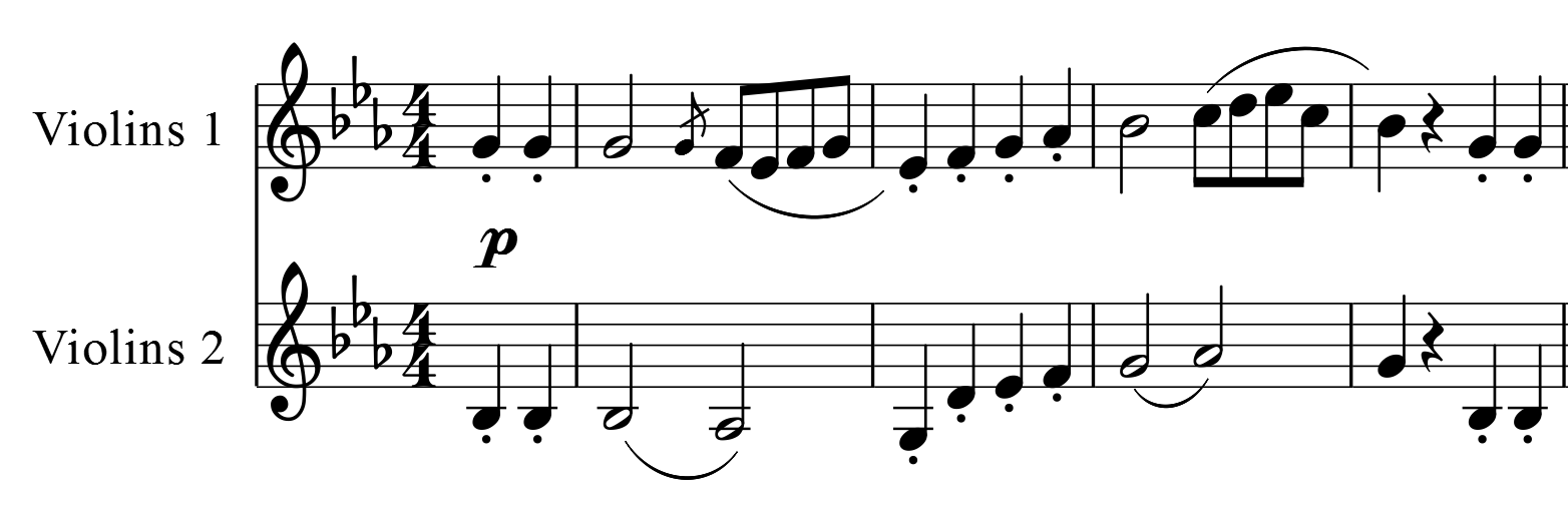 Joseph Haydn, Symphony No. 85, second movement, bar 1-4